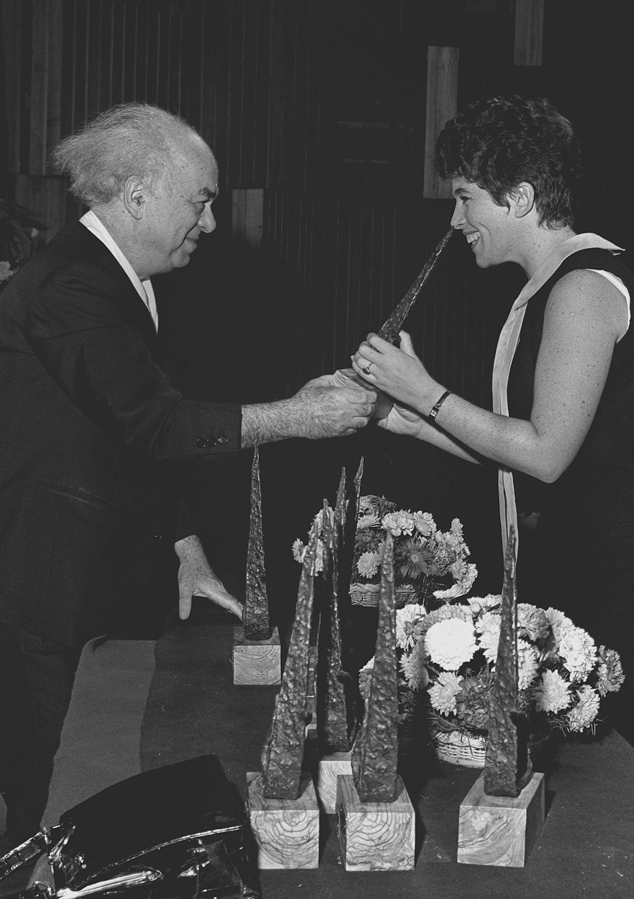 THE 1964 "KINOR DAVID" AWARD, HELD AT THE "CAMERI"THEATRE. IN THE PHOTO, POET AVRAHAM SHLONSKY PRESENTING NEHAMA HANDEL WITH THE BEST FOLK SINGER PRIZE.